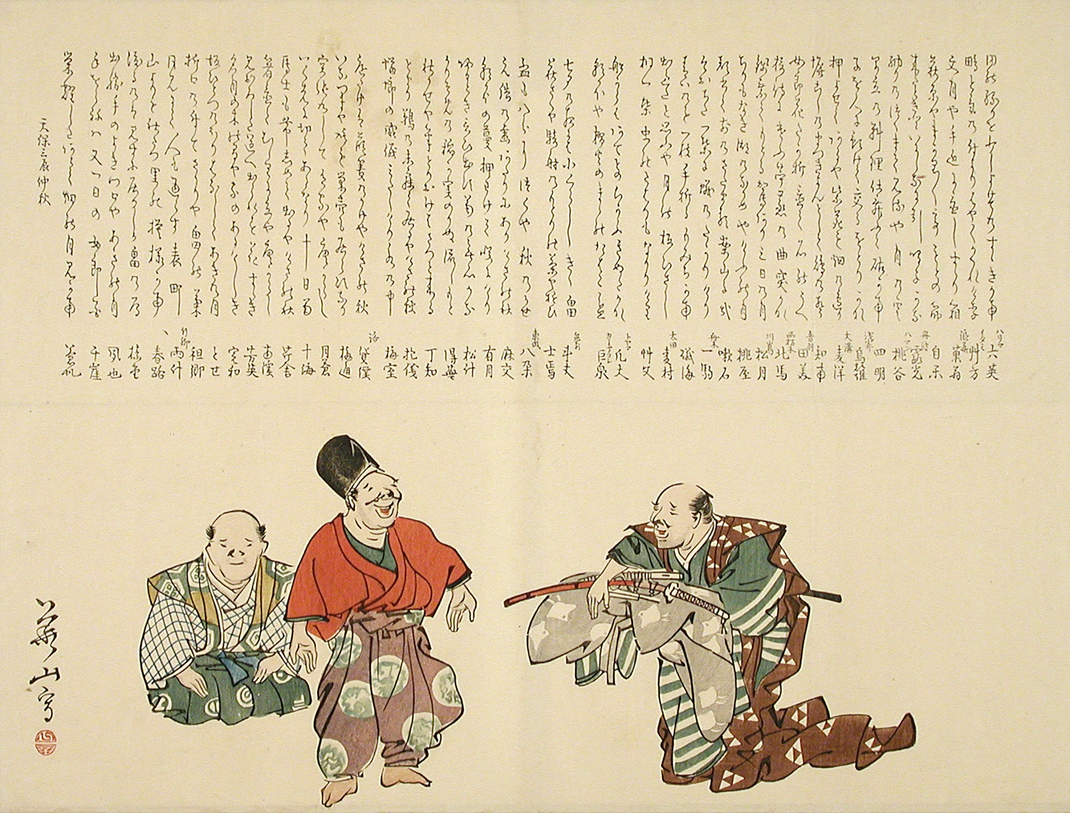 Japan, 19th century Prints; woodcuts Surimono; color woodblock print Image: 14 5/16 x 18 1/16 in. (39.3 x 46.0 cm); Paper: 15 1/2 x 20 3/4 in. (36.4 x 52.6 cm) Julian C. Wright Bequest (M.79.152.557) Japanese Art